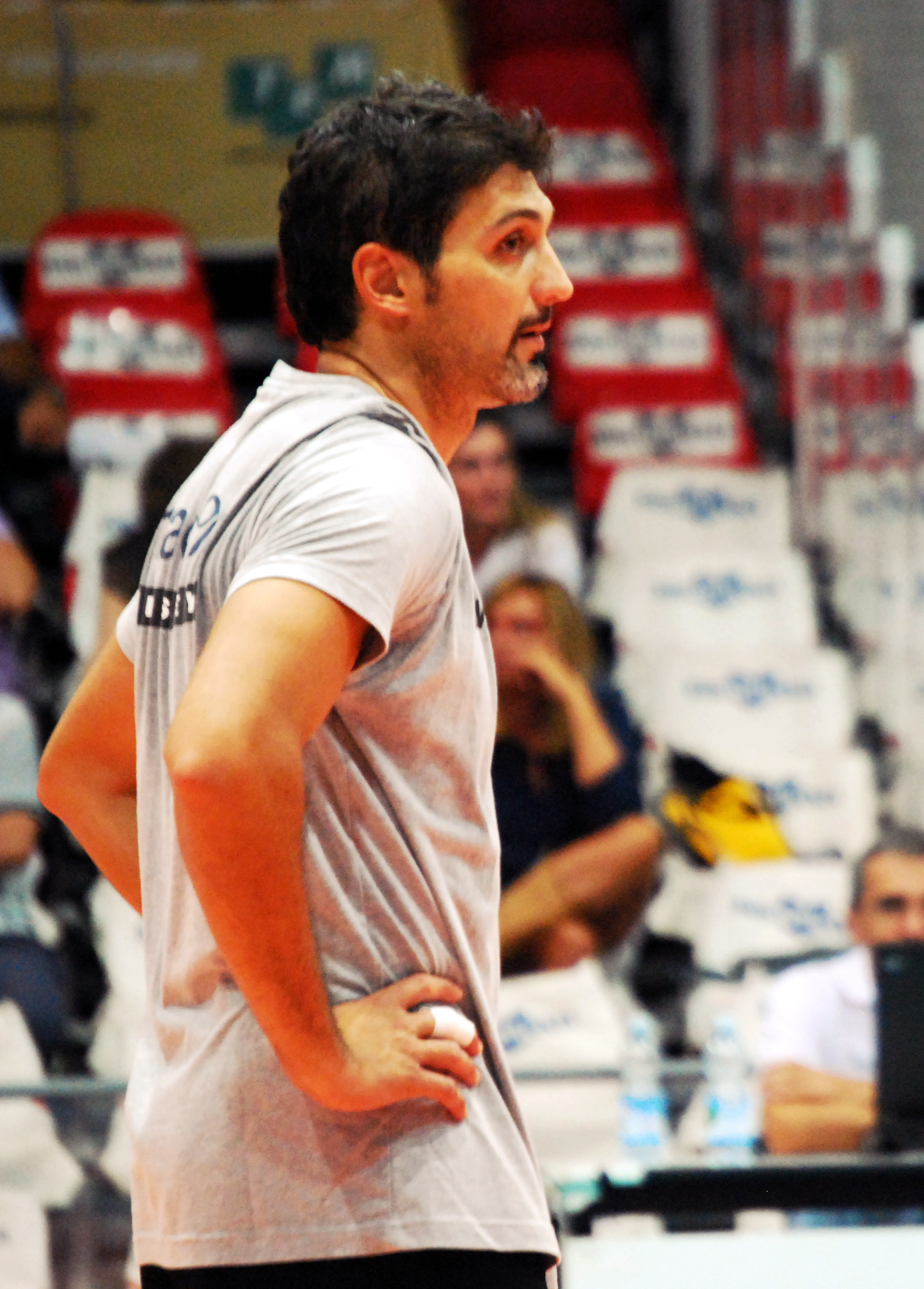 I took this photo during a volleyball match in Piacenza